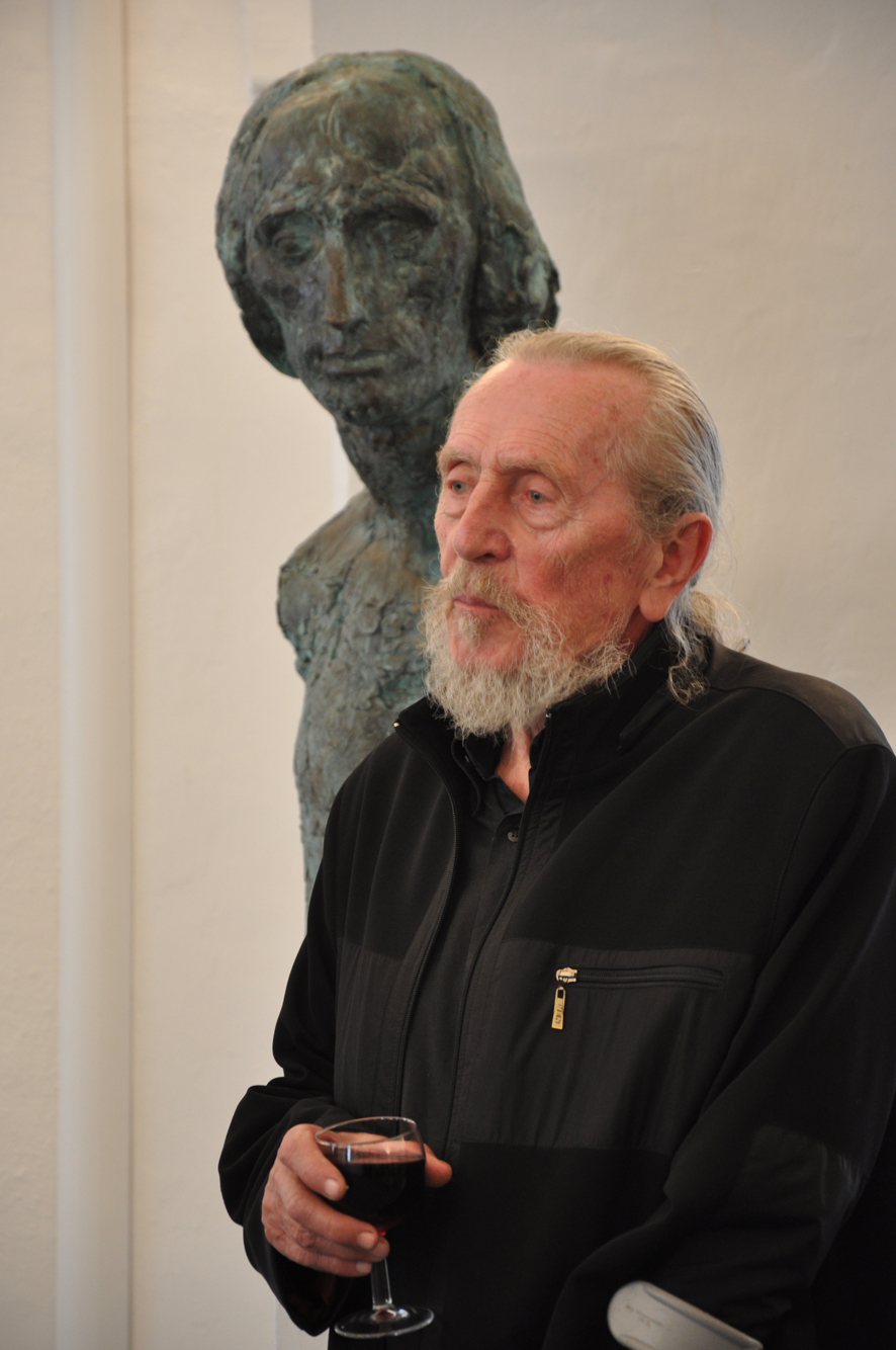 Photo with a kind permission of Dana Mojzisova